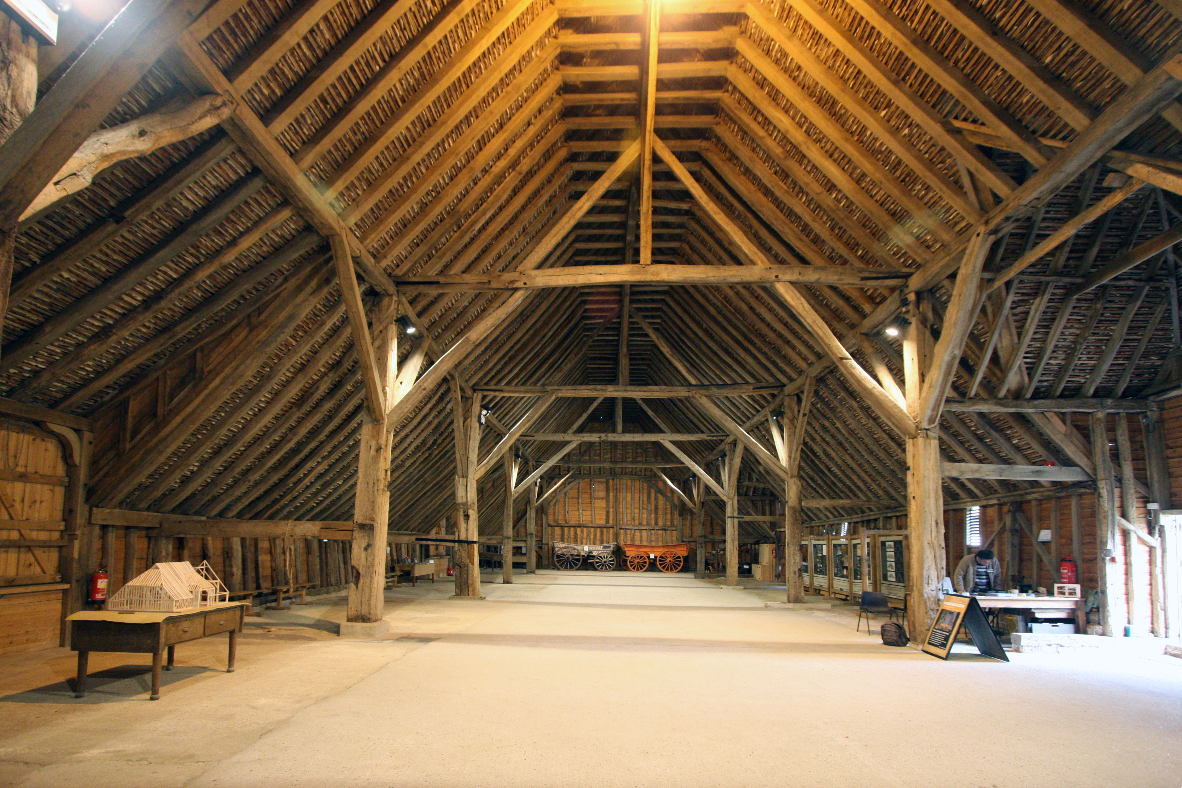 The oldest surviving timber-framed barn in Europe. Coggeshall Grange Barn belonged to Coggeshall Abbey - which was founded in 1147 by King Stephen and Queen Matilda. The barn is so ancient it may even precede the abbey itself. Tests on the oldest parts of the wood have dated it to anywhere between 1130-1270.